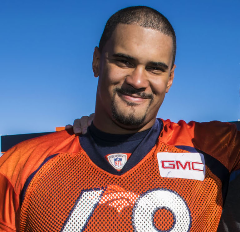 Denver Broncos offensive tackle, Ryan Harris, attending Denver Broncos' Military Appreciation Day on November 12, 2015.